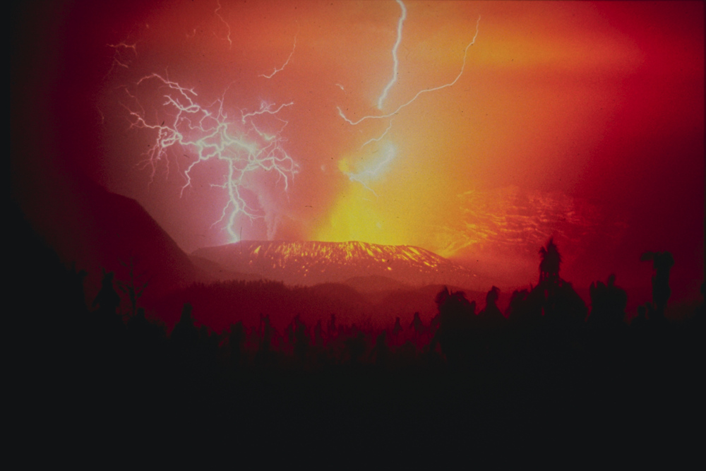 United States Geological Survey photo of 1982 eruption of Galungung (with lightning strikes). Cropped. This stratovolcano with a lava dome is located in western Java. Its first eruption in 1822 produced a 22-km-long mudflow that killed 4,000 people. The second eruption in 1894 caused extensive property loss. The slide depicts a spectacular view of lightning strikes during a third eruption on December 3, 1982, which resulted in 68 deaths. A fourth eruption occurred in 1984. Source Caption: Galunggung, Indonesia;07.25 S 108.05 E;2,168 m elevation